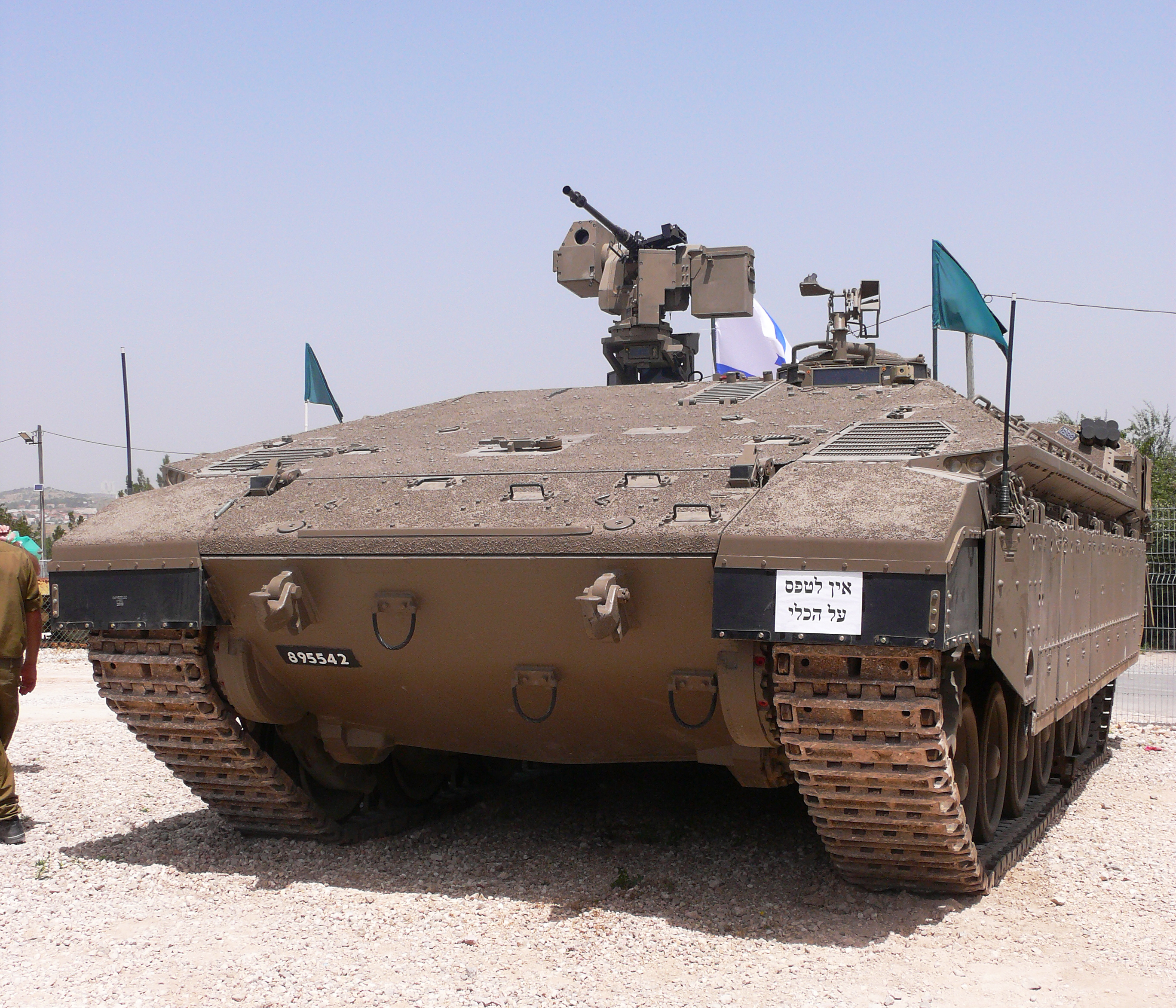 IDF Namer APC